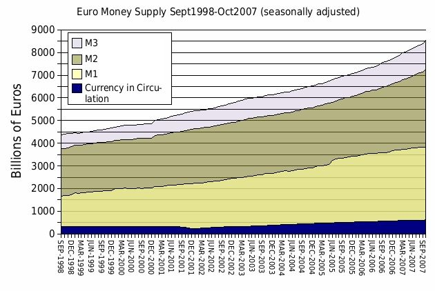 The Euro money supply from September 1998 through October 2007.